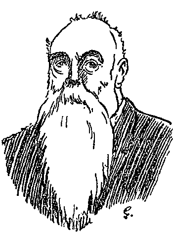 Engraved portrait of James Colvin (New Zealand M.P. for Buller) in the New Zealand Truth newspaper, shortly after his death. Inscription below: "THE LATE MR. JAMES COLVIN (M.P. for Buller.)"